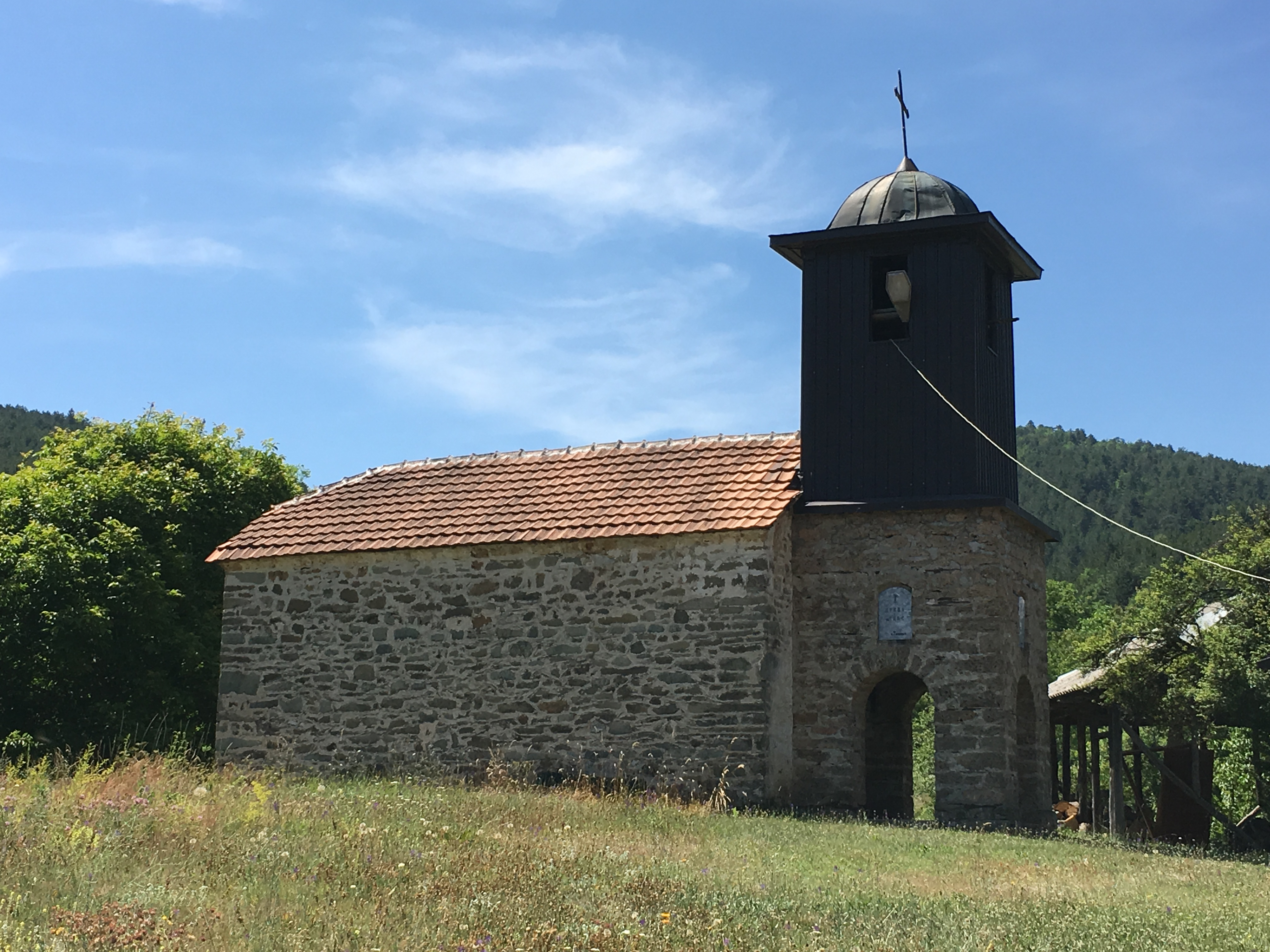 Church of the Ascension of Jesus in the village of Trebovle